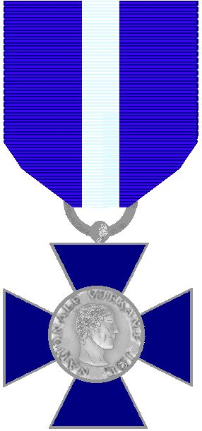 Military Pentathlon Cross of the Dutch Olympic Committee to Nassau blue ribbon